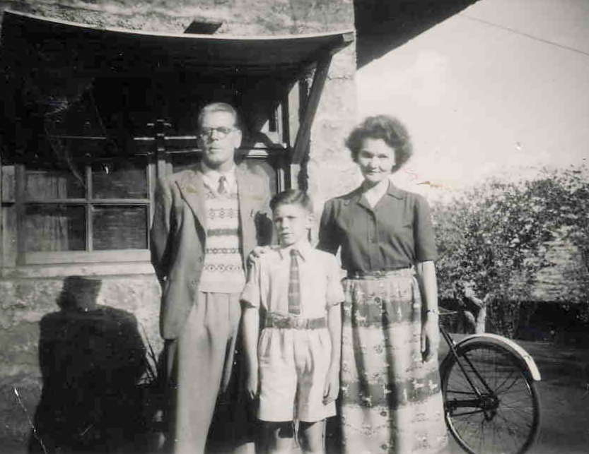 A student of the St. Mary's School in Nairobi, Kenya pictured with his parents in 1949.